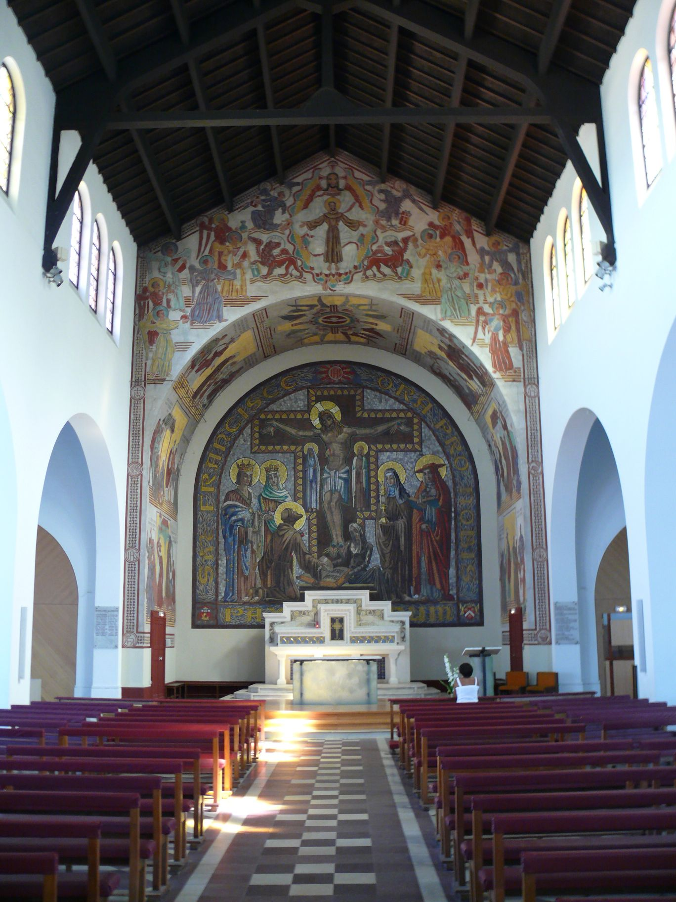 Saint-François-d'Assise's church, in Paris (Paris XIX, France)